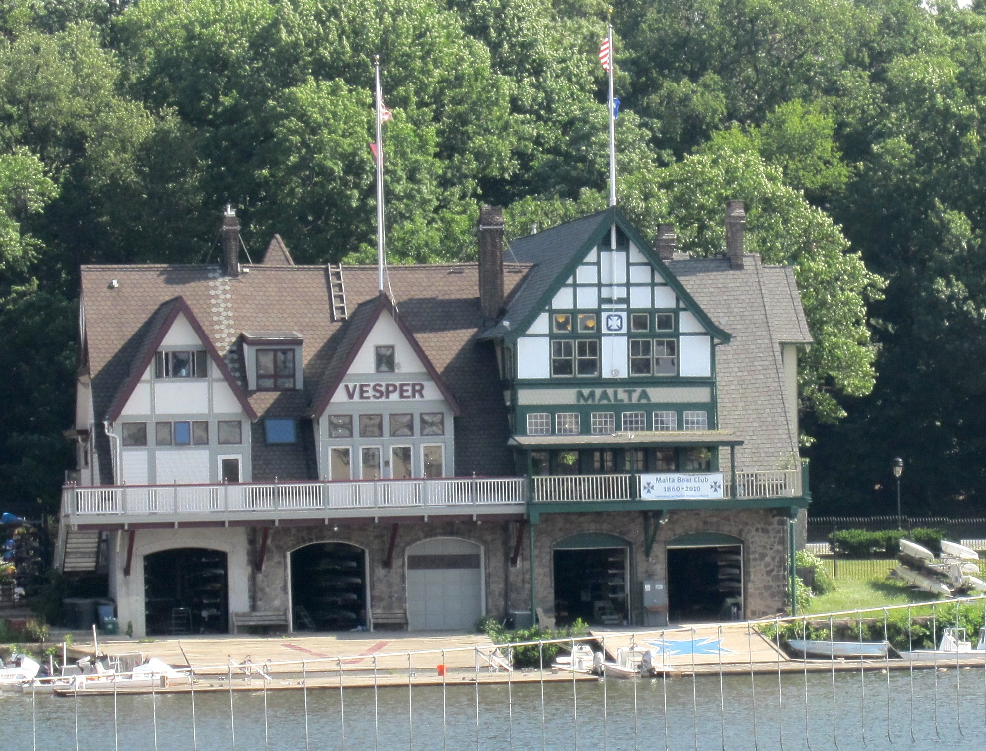 Vesper & Malta Boat Clubs #9-10 Boathouse Row, Philadelphia, PA (1873)